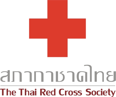 The logo of the Thai Red Cross Society shows the Red Cross emblem above the society's name in Thai and English.